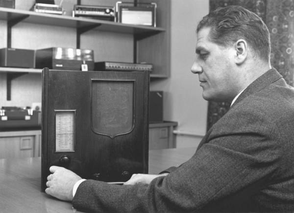 1st Helvar Radio 36-6. Made in Pitajanmaki, Helsinki.